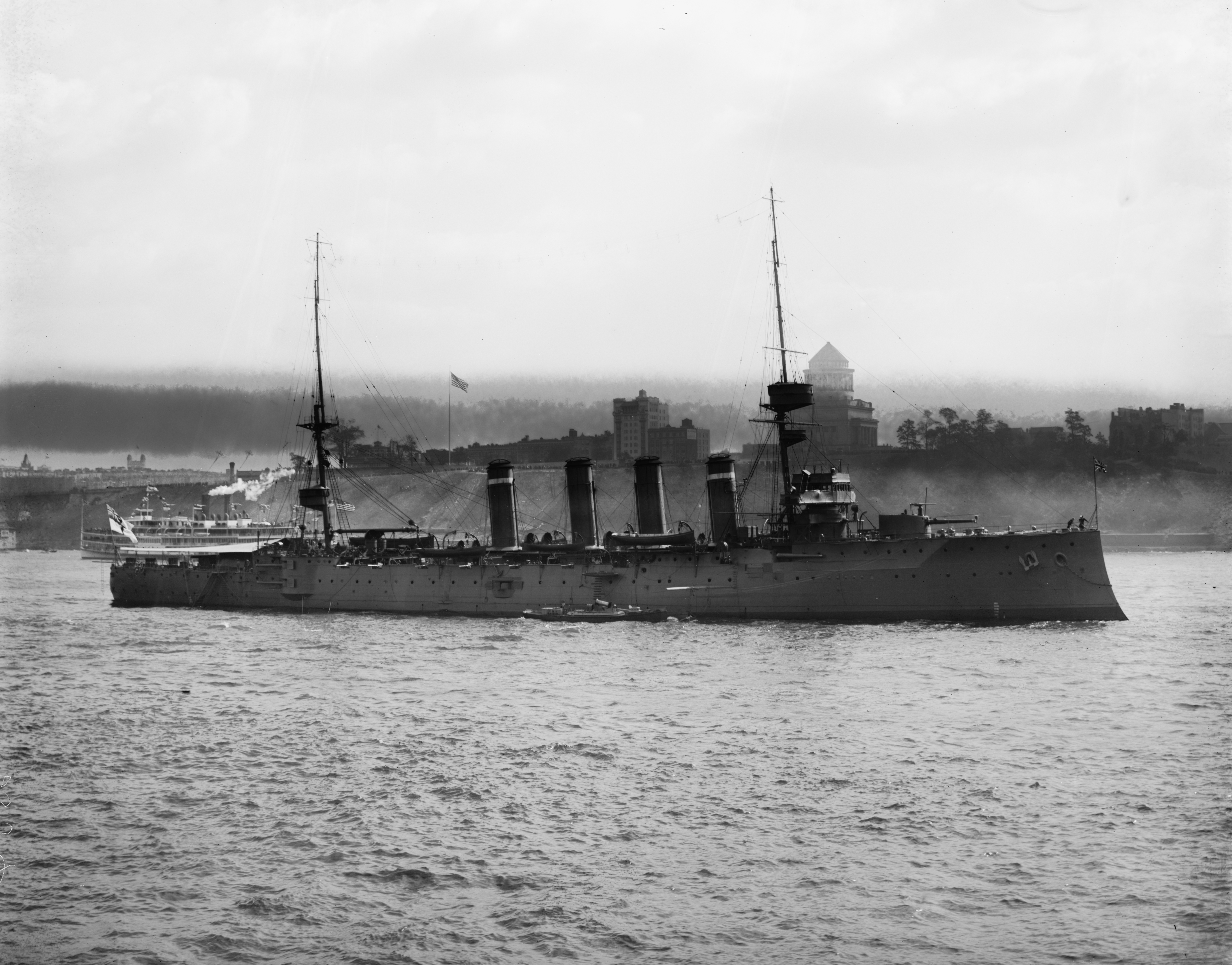 HMS Argyll, a British Devonshire-class armoured cruiser, in the Hudson River during the 1909 Hudson-Fulton Celebration, with Grant's Tomb in the background.